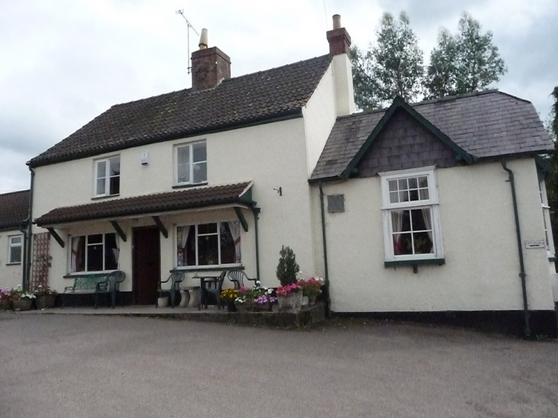 Salutation Inn, Ham